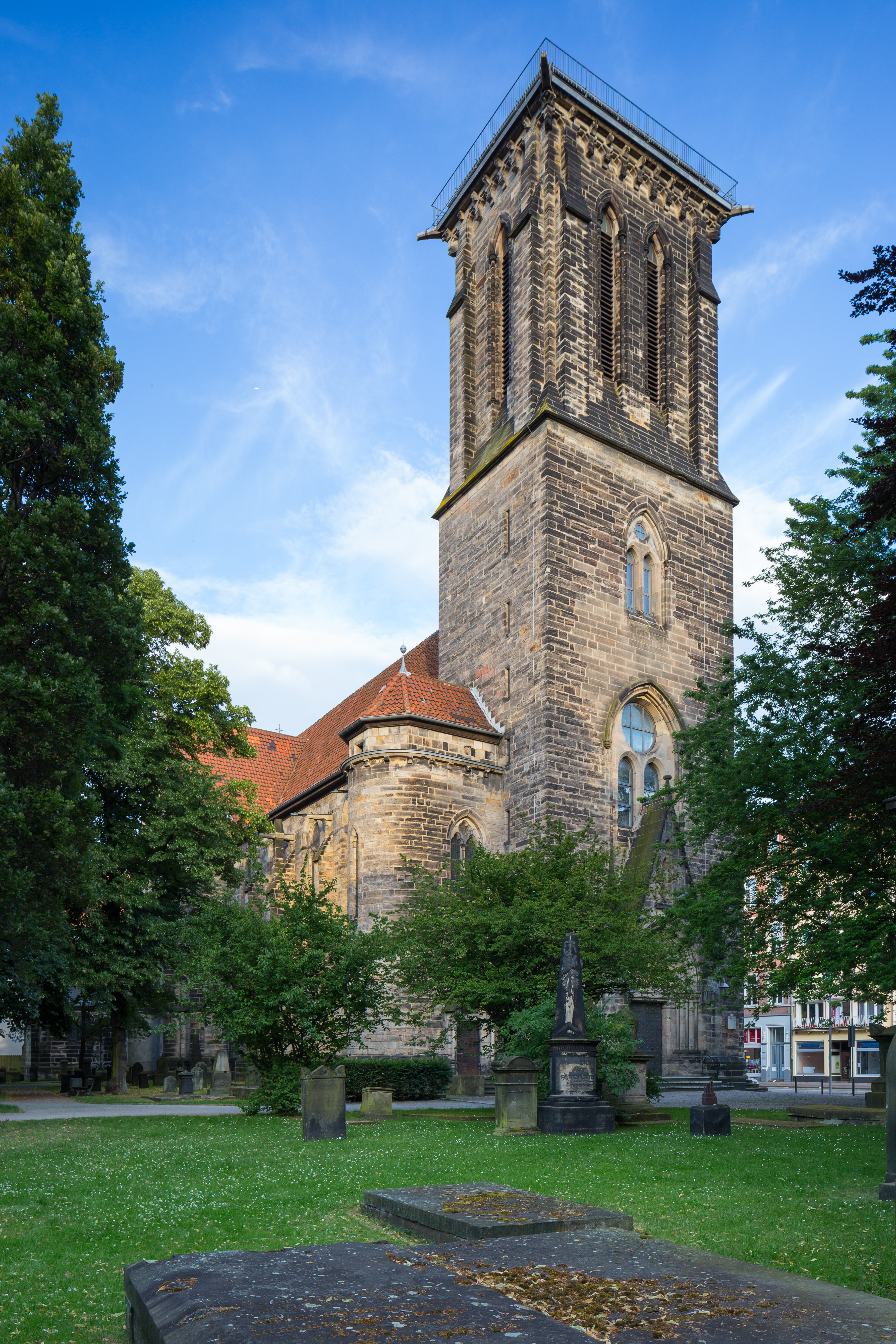 Gartenkirche church and Gartenfriedhof cemetery located at Marienstrasse in Hanover, Germany.